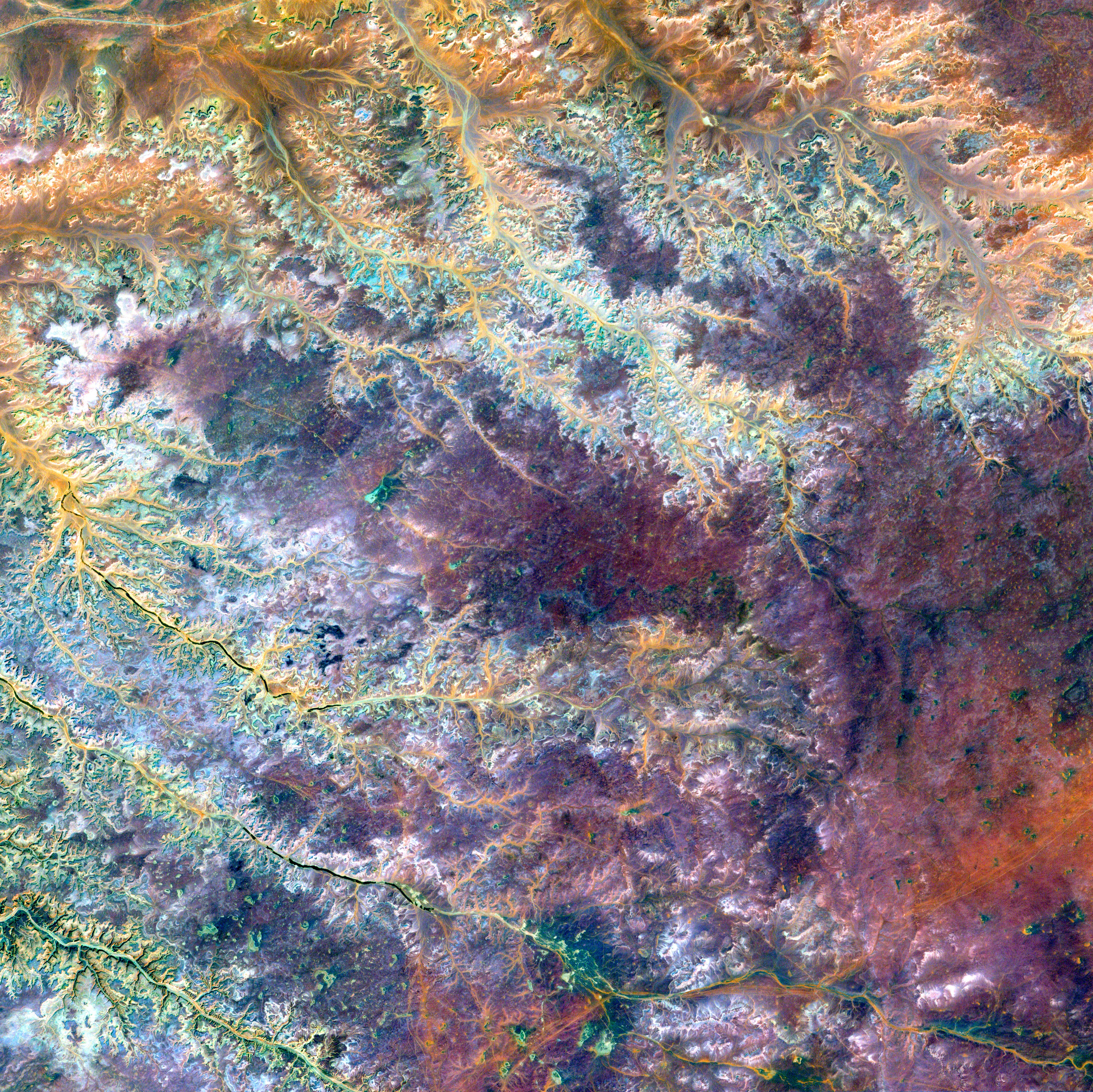 Ghadamis River in Libya. – This scar on an arid landscape is the dry riverbed of the Ghadamis River in the Tinrhert Hamada Mountains near Ghadamis, Libya. – This is a false-color composite image made using near-infrared, green, and blue wavelengths. The image has also been sharpened using the sensor’s panchromatic band.